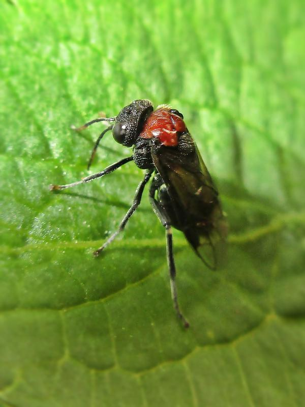 Eriocampa ovata (Tenthredinidae sp.), Elst (Gld), the Netherlands